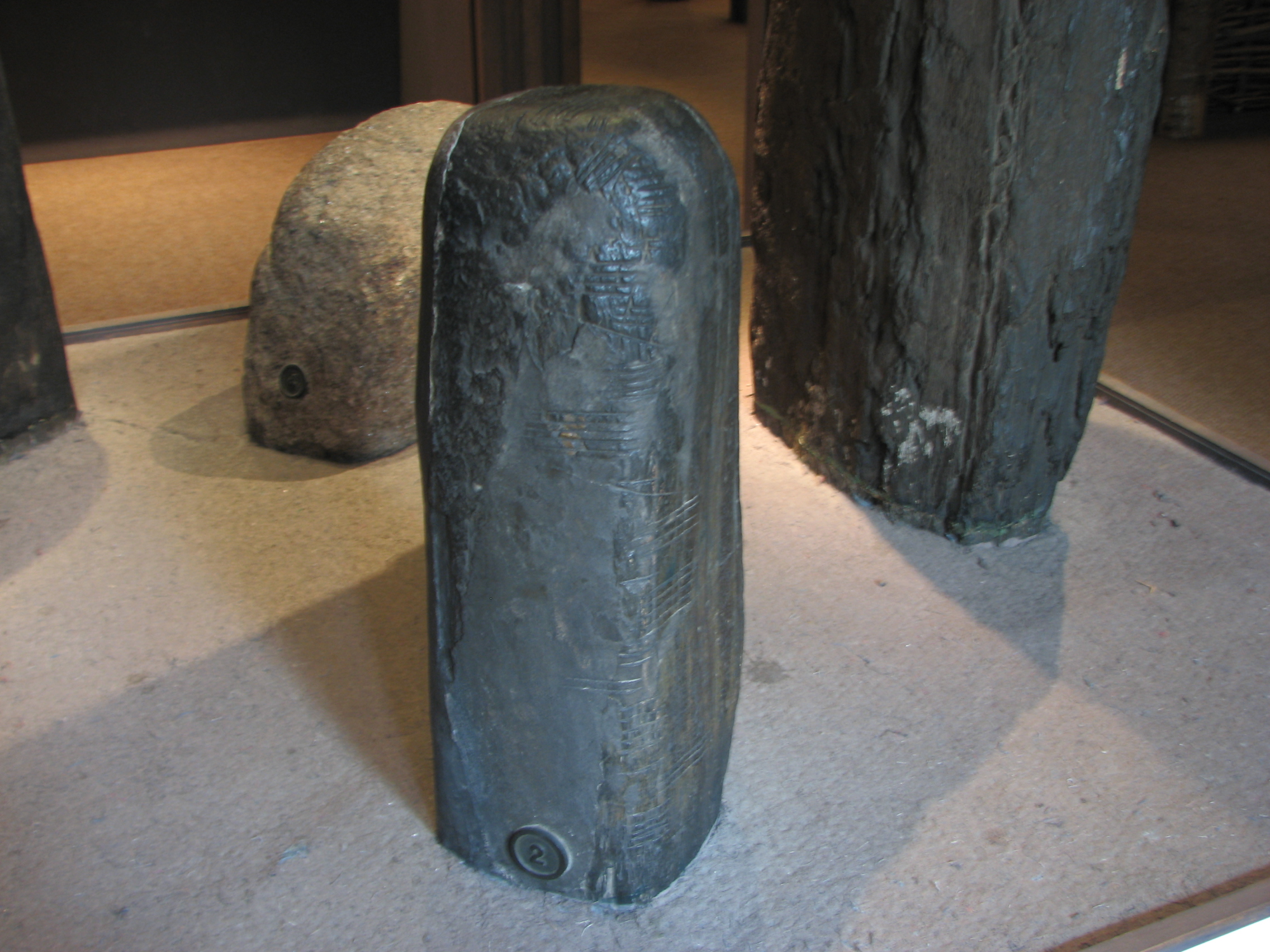 The Ballaqueenee Stone II with ogham writings, Manx museum, Douglas, Isle of Man